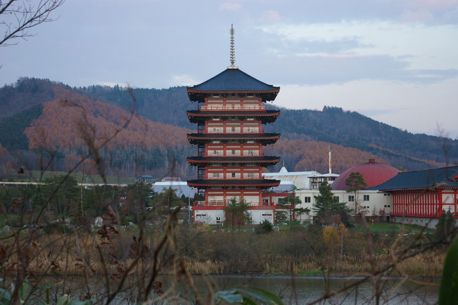 The five-storied pagoda in the "Kita-No-Miyako Ashibetsu" in Ashibetsu city, Hokkaido.